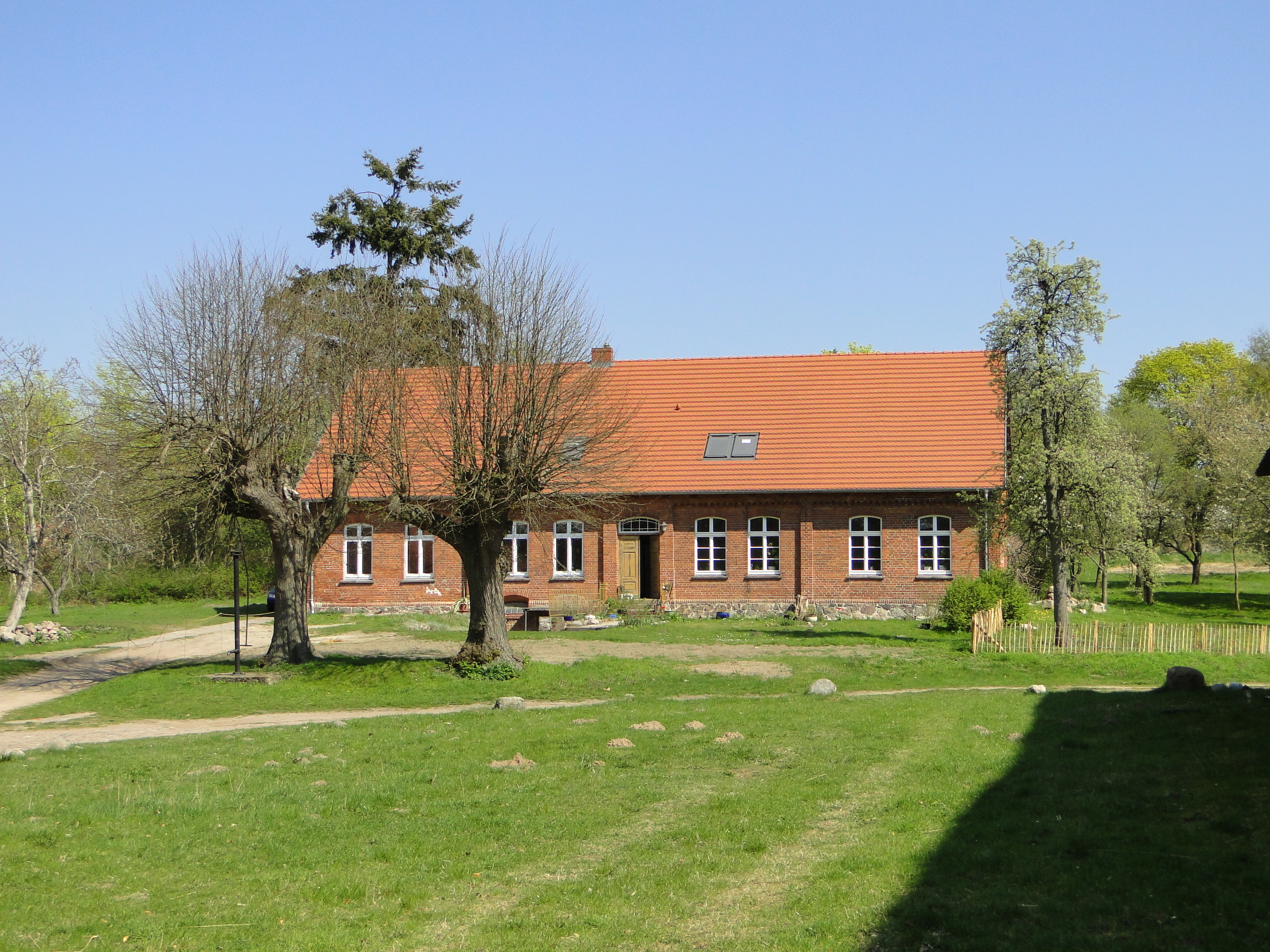 Rectory in Lohmen, district Güstrow, Mecklenburg-Vorpommern, Germany